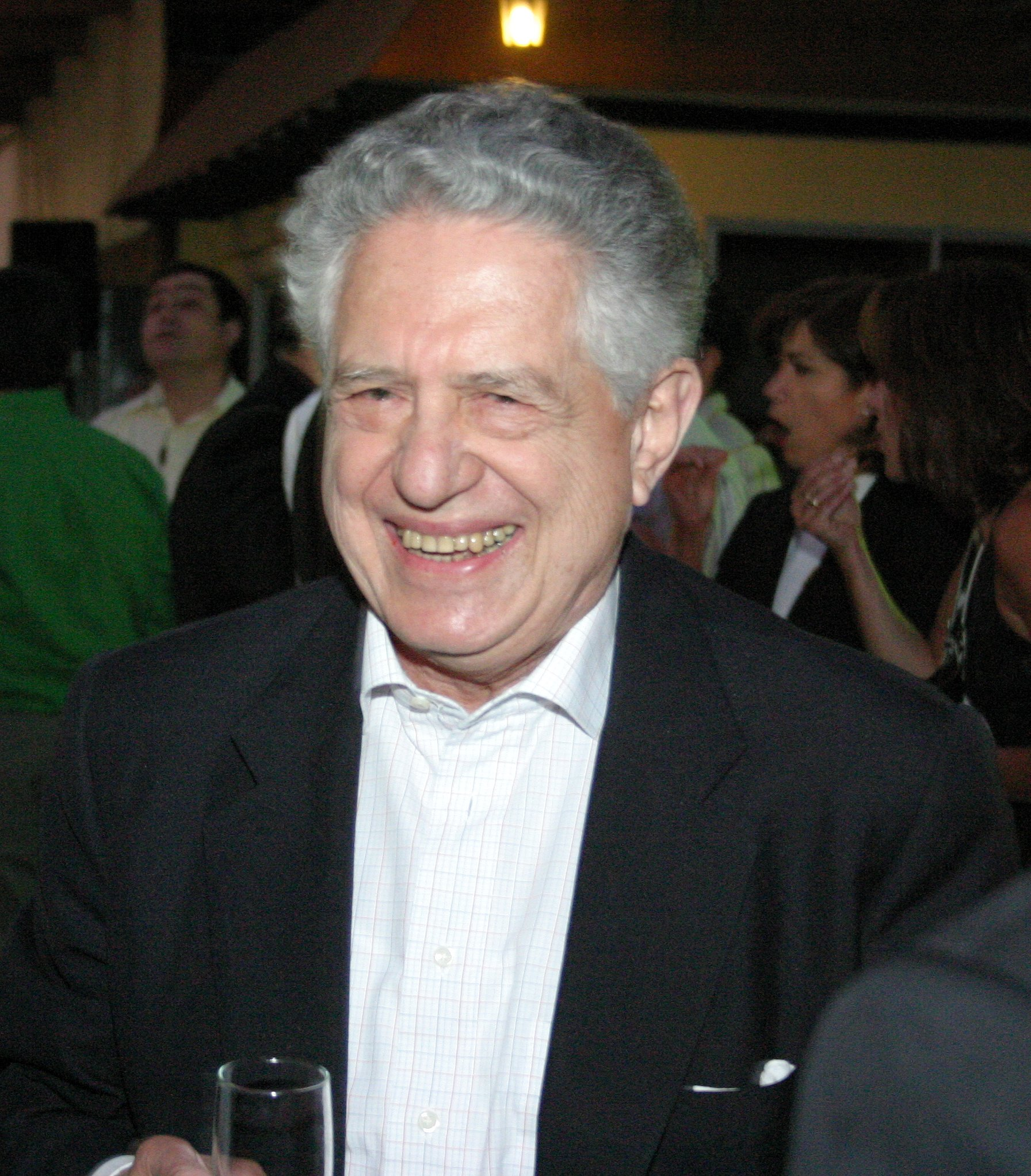 Carlos Massad Abud was president of the Central Bank of Chile, as well as State Minister in the government of Eduardo Frei Ruiz-Tagle